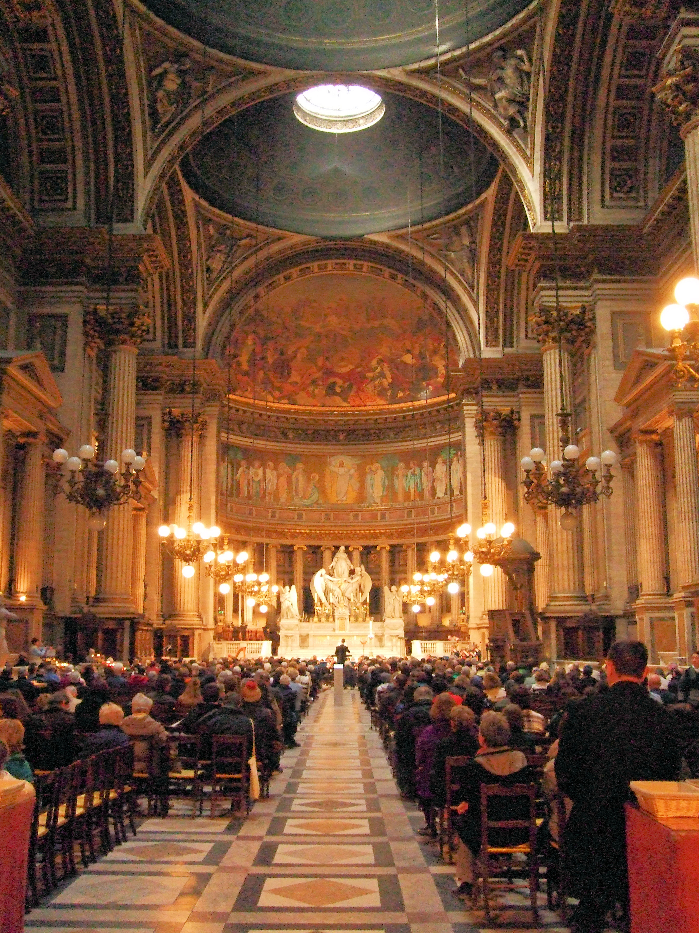 Concert In The Madeleine Church, Paris.